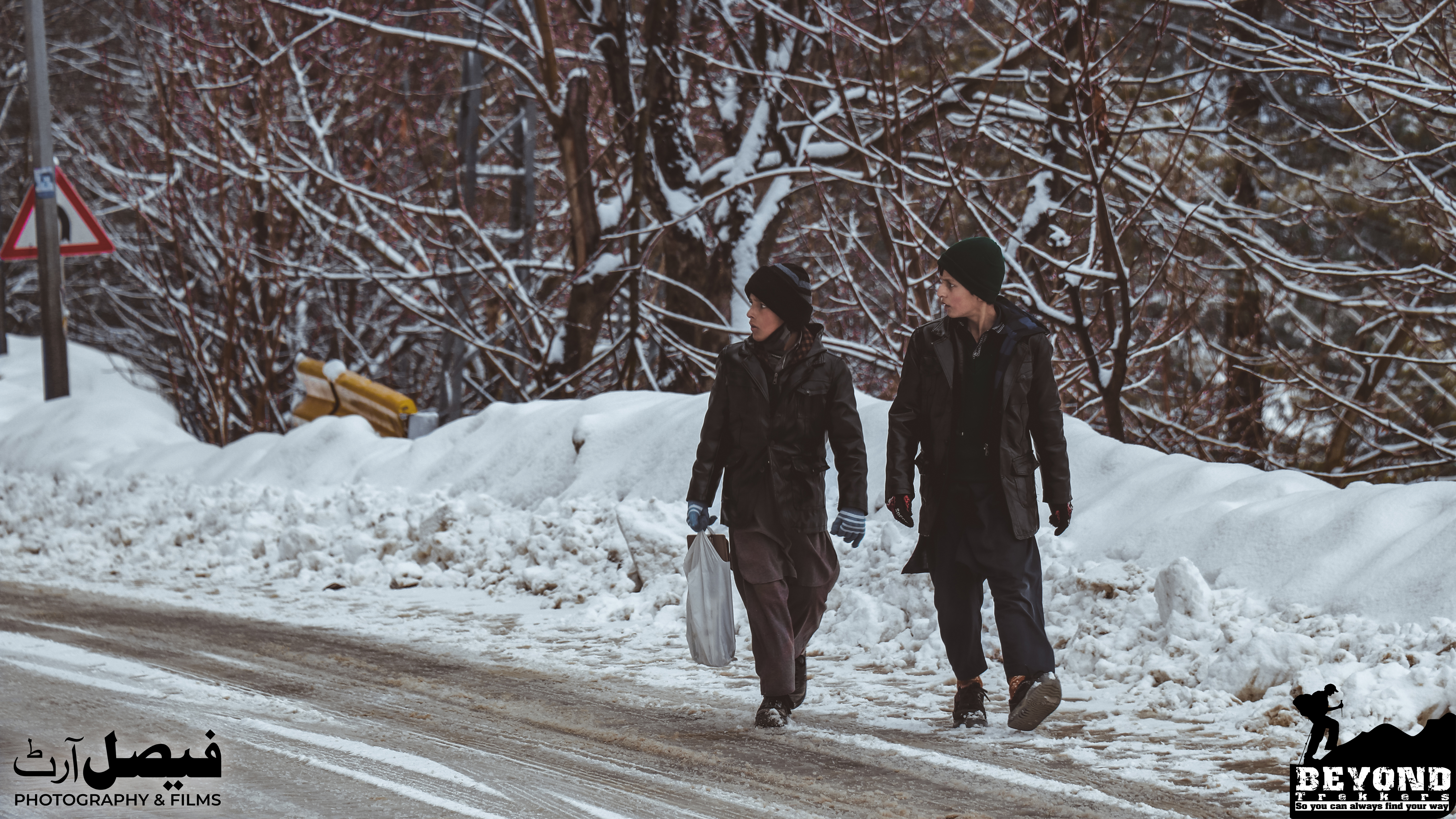 Two students are going to school in such a cold weather. Jhika Gali, Murree tehsil, Pakistan.